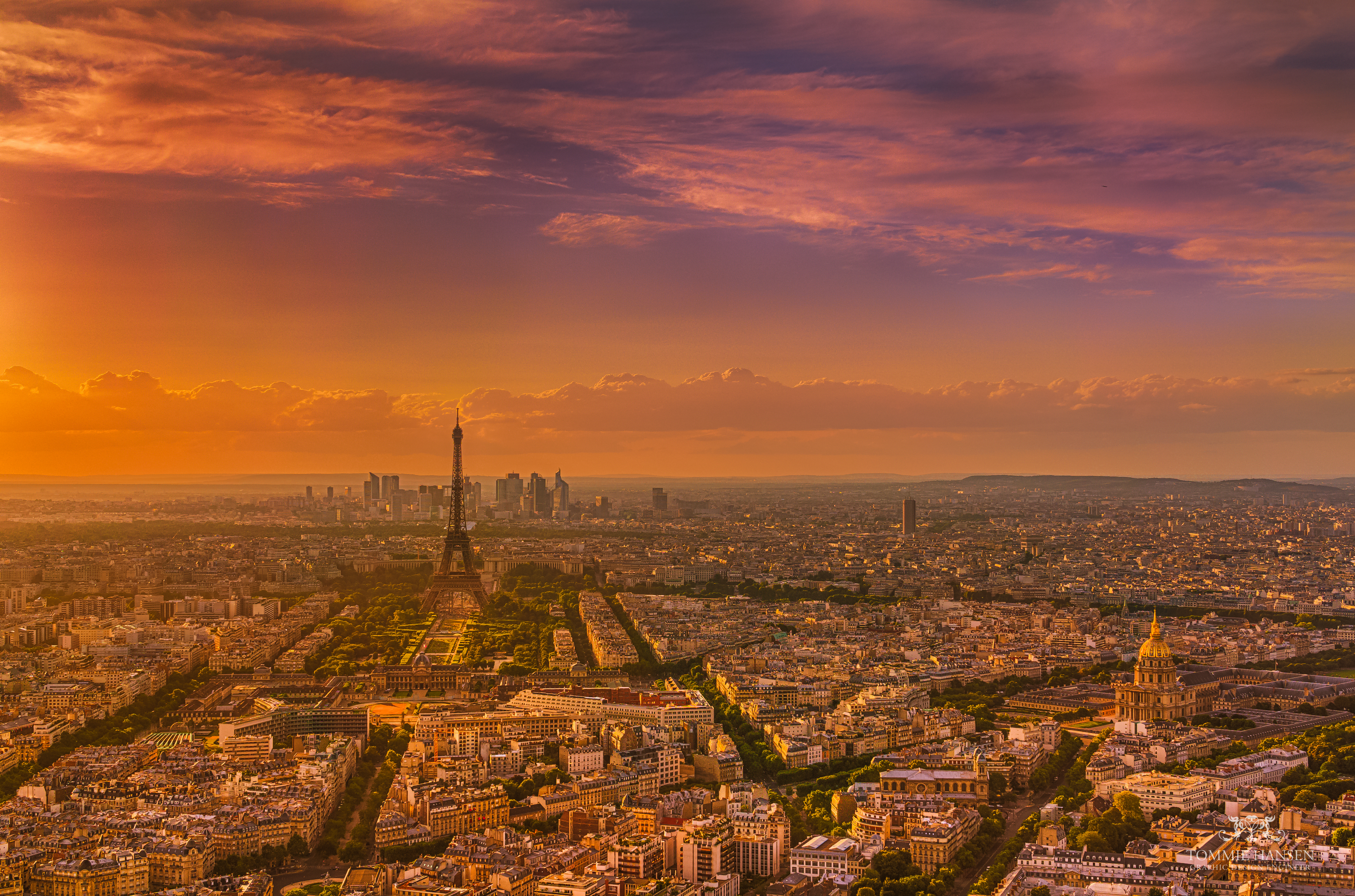 Paris seen from the Tour Montparnasse.